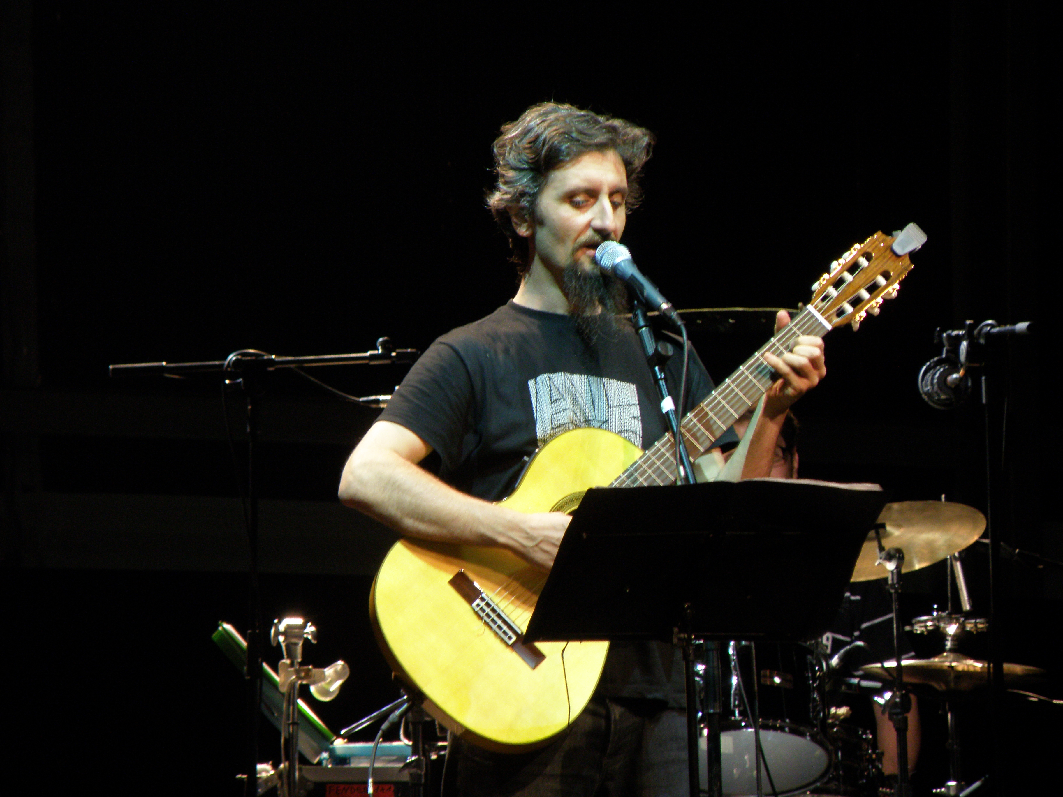 The roman actor Ascanio Celestini is playing the guitar and singing during his show called Parole Sante in Villa Arconati, Bollate, Milan.